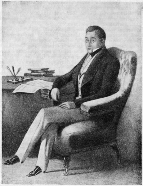 Alexander Griboedov by Pyotr Karatygin